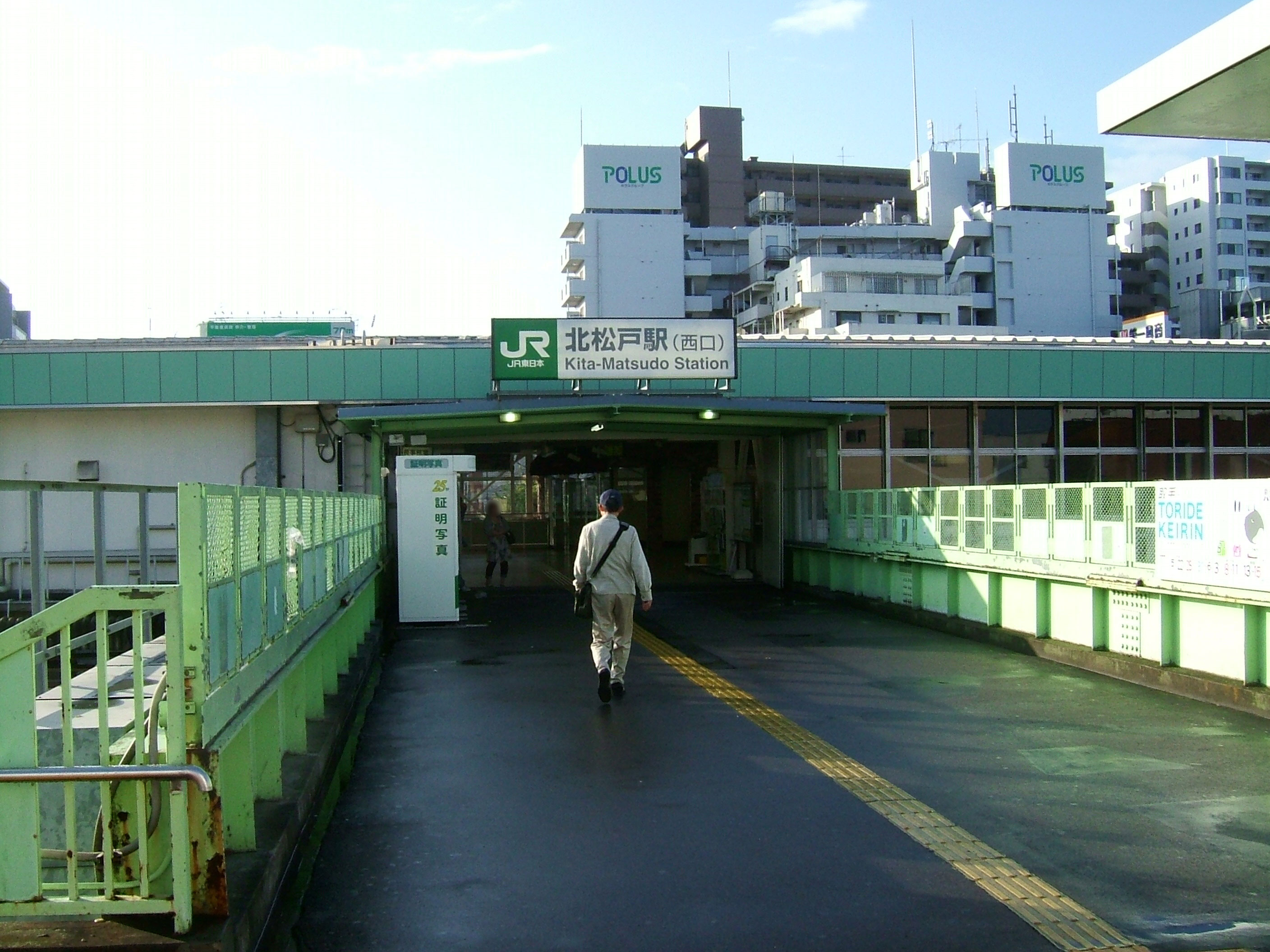 Kita-Matsudo Station west entrance (East Japan Railway Jōban Line)